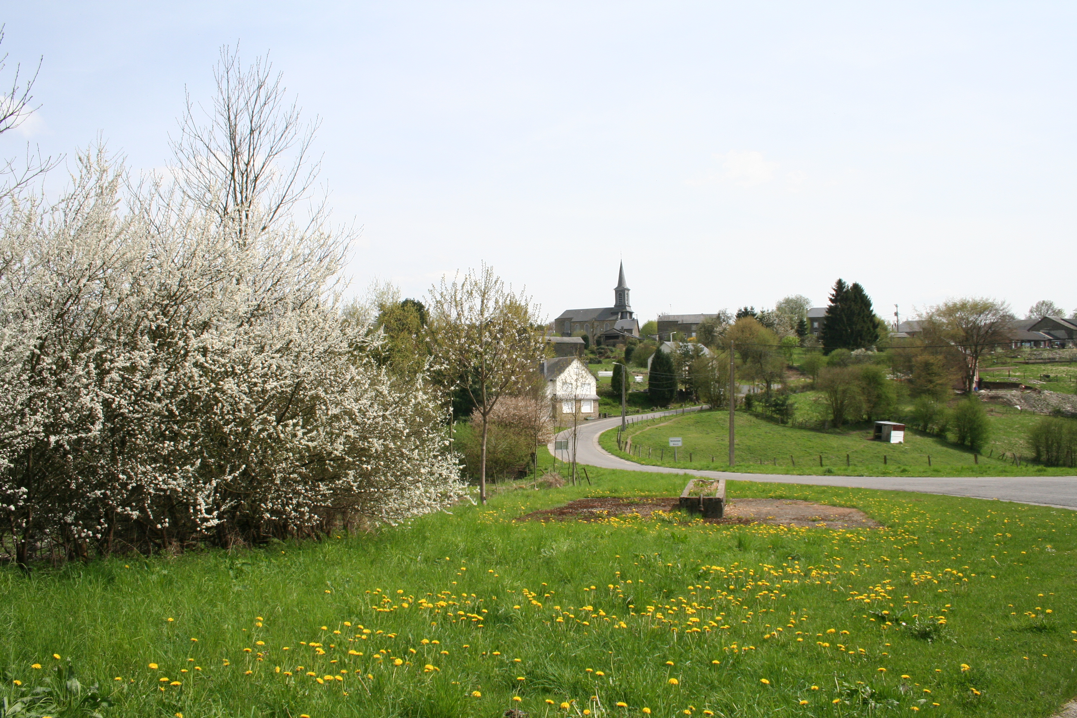 Bellefontaine (Bièvre) (Belgium), the little ardenne village